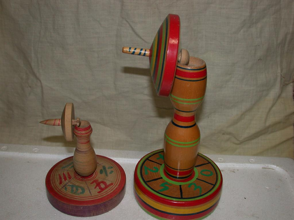 Japanese Spinning Tops:kakegoma from my collection Author;Keisotyo